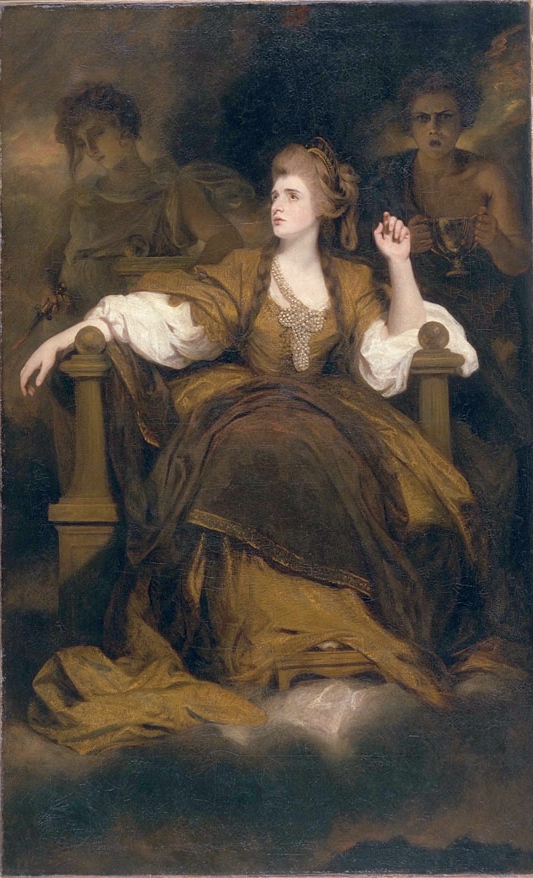 Portrait of eighteenth century Shakespearean actress Sarah Siddons.